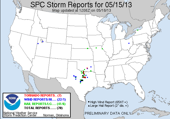 The National Weather Service map for the May 15, 2013 tornado outbreak. Most damage and tornadoes occurred in the Dallas-Fort Worth region of Texas.